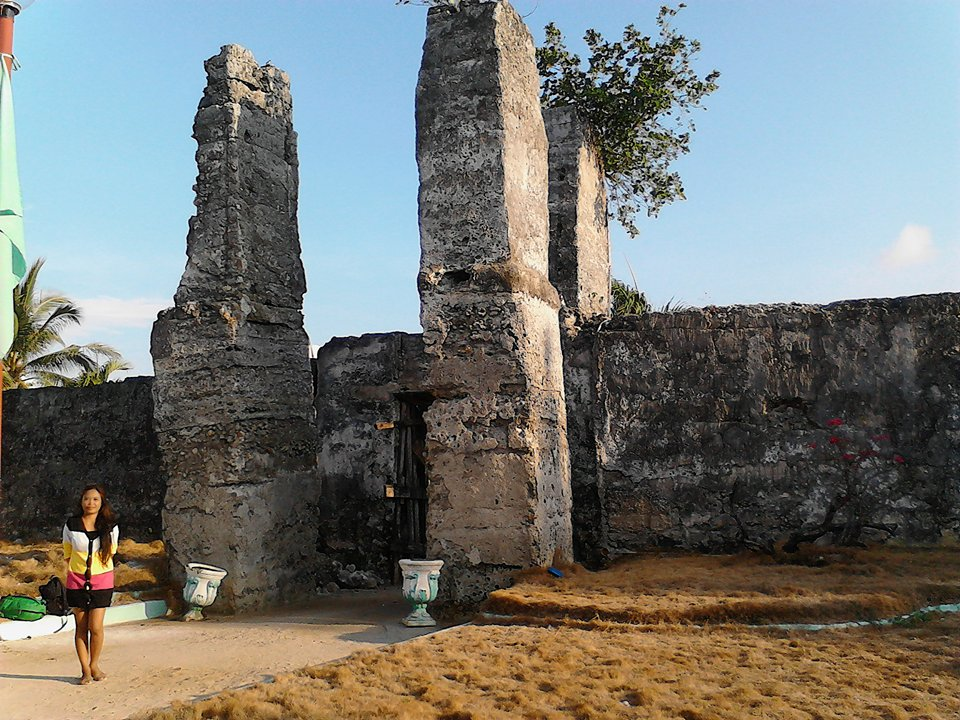 photo of kota park